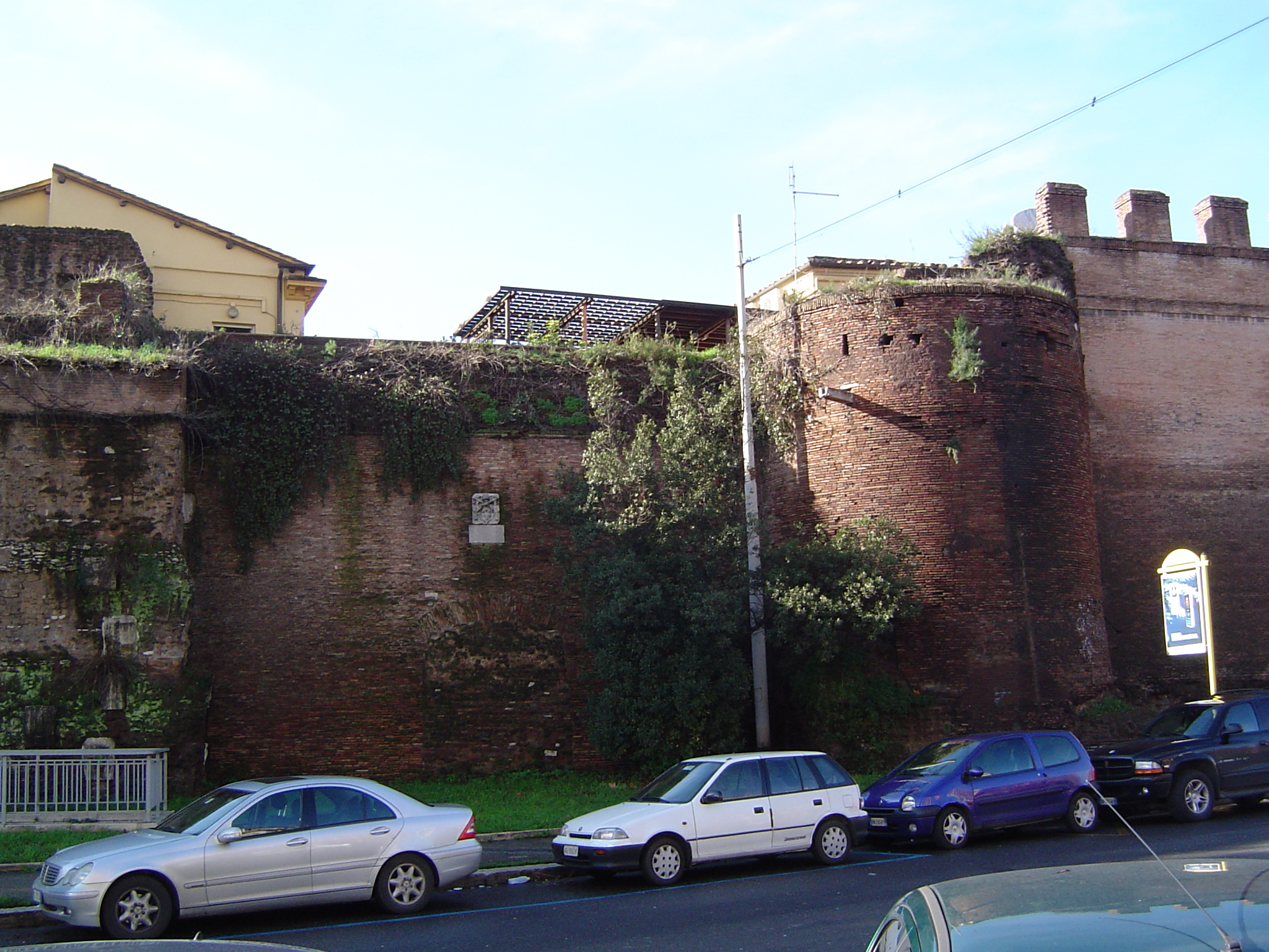 Porta Nomentana. Ancient now closed gate in the Aurelian Wall in Rome, Italy Made by Joris van Rooden, the netherlands on 03-01-2006